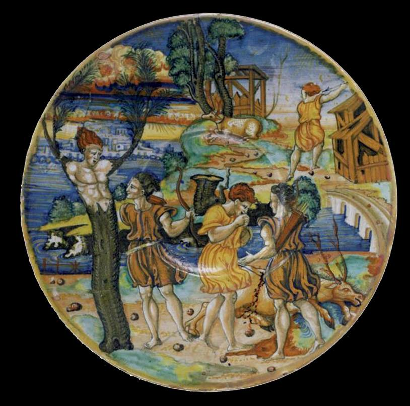 Dish depicturing Cyparissus's metamorphosis